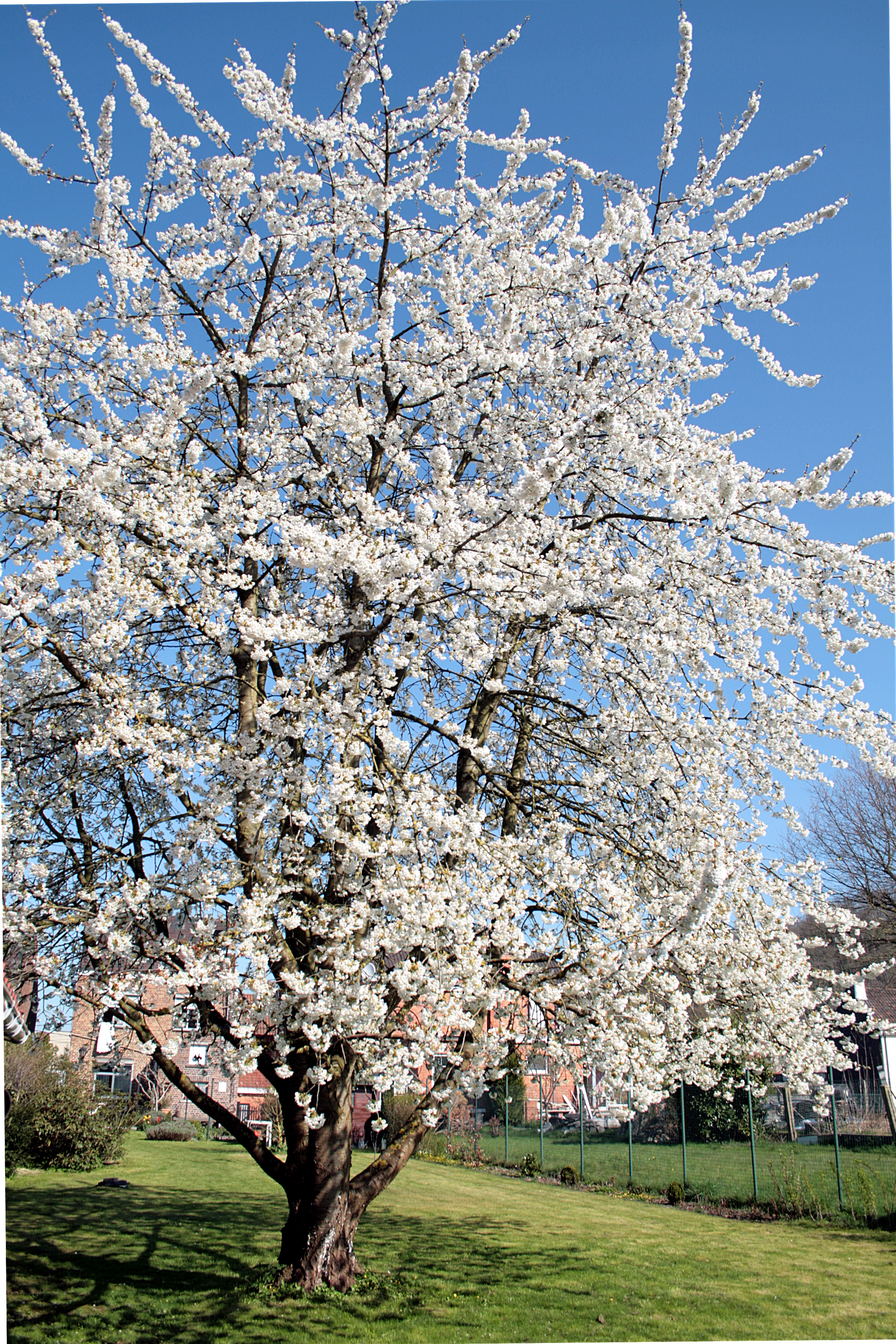 Sweet cherry (Prunus avium) - Havré (Belgium) - Lieu-dit "Hameau du Pire"